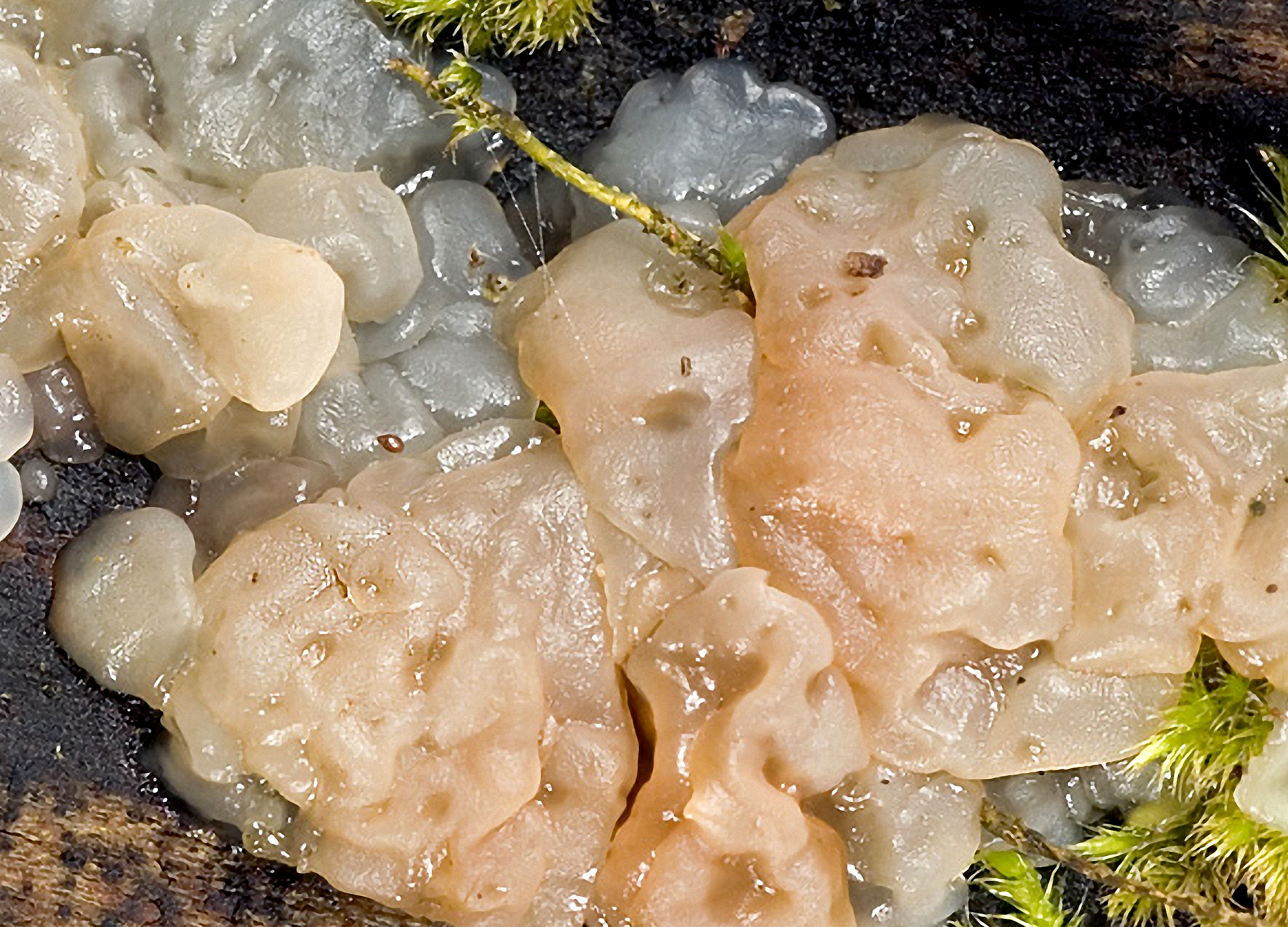 Exidia thuretiana Location: near village Kopriva, Kras, Slovenia Observation Notes: Exidia cartilaginea Date: Dec. 13. 2008 Lat.: 45.88833 Long.: 13.83885 Code: Bot_315/2008-5498 Habitat: Light mixed karst forest and bushes, predominantly oak, stony ground, limestone, shaded by tree canopies, N oriented, cca. 1 m above ground, partly protected from rain, precipitations 1.500 -1.600 mm/year, average temperature 10-12 deg C, altitude 280 m (920 feet), submediterranean phytogeographical region. Substratum: partly debarked rotten trunk of a thick Hedera helix climbing a Quercus petraea and cut at the bottom by men. Nikon D70 / Nikorr Micro 105mm/f2.8 / Nikon R1 Macro flash Metz 45CL-3 flash For more information about this, see the observation page at Mushroom Observer.